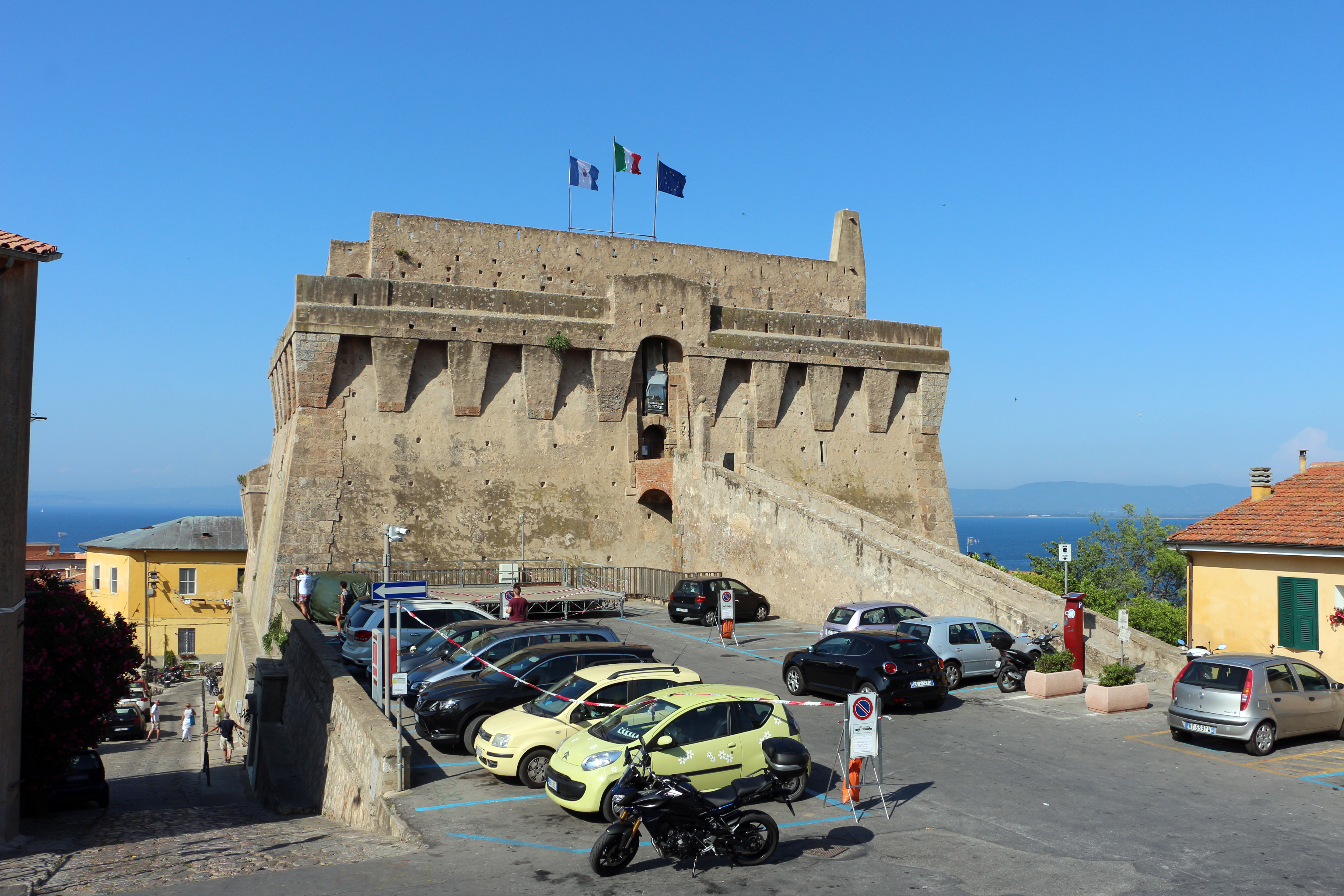 Porto Santo Stefano